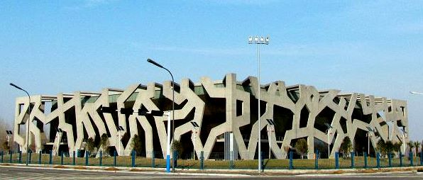 Bengbu Longhu Stadium 中文（中国大陆）: 蚌埠龙湖体育馆